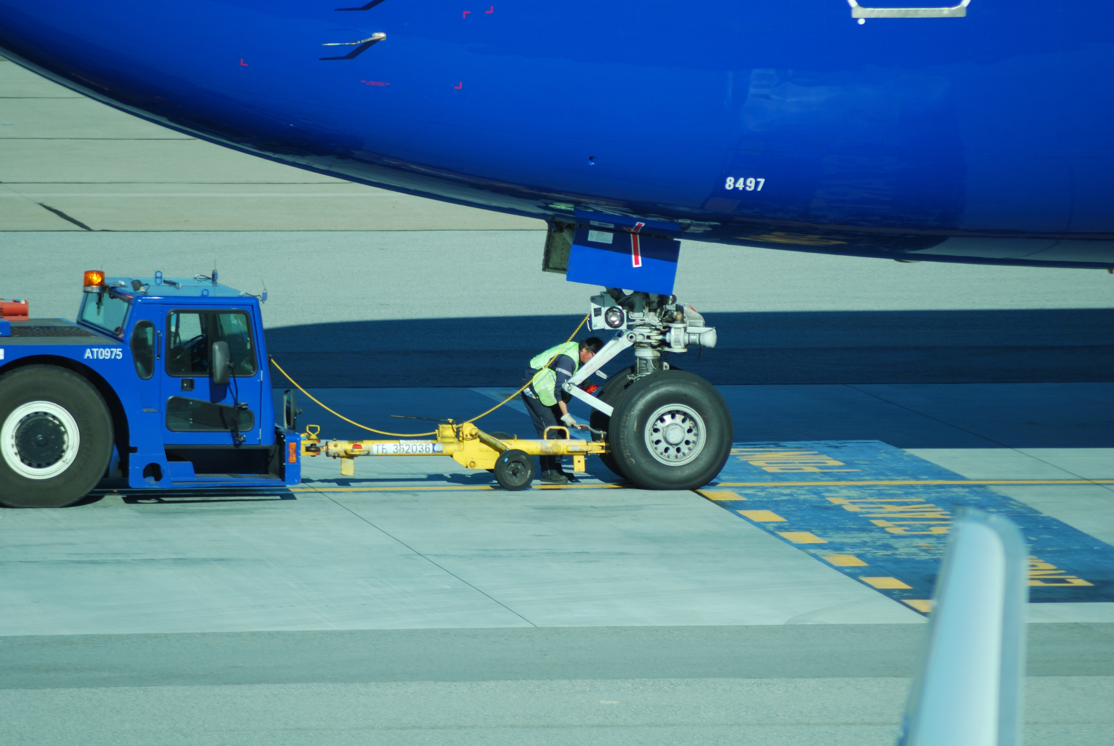 Decoupling a pushback tractor: 3. Step, decoupling the Towbar